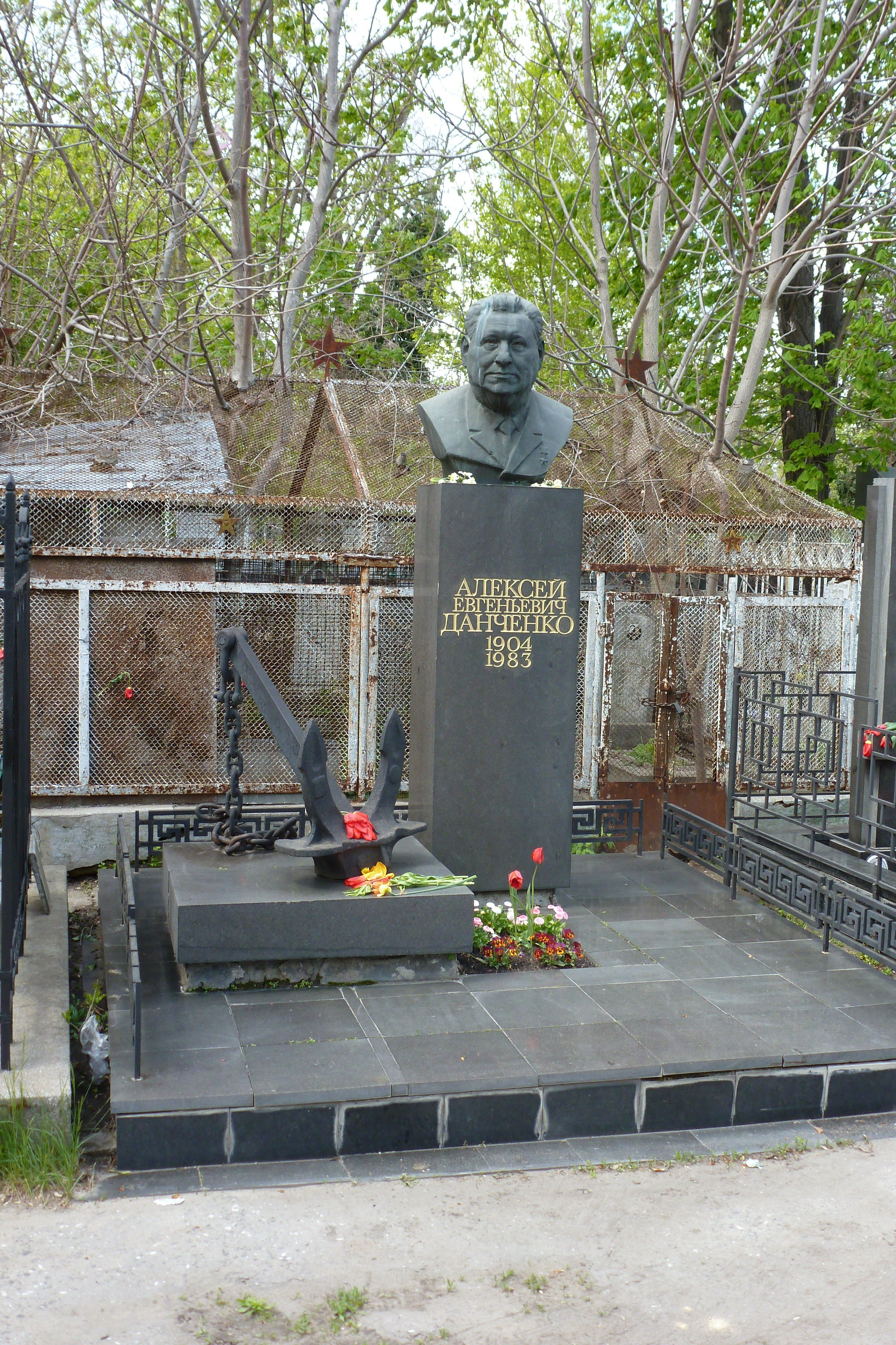 The tombstone of Aleksey Danchenko on the Second Christian Cementery in Odessa.